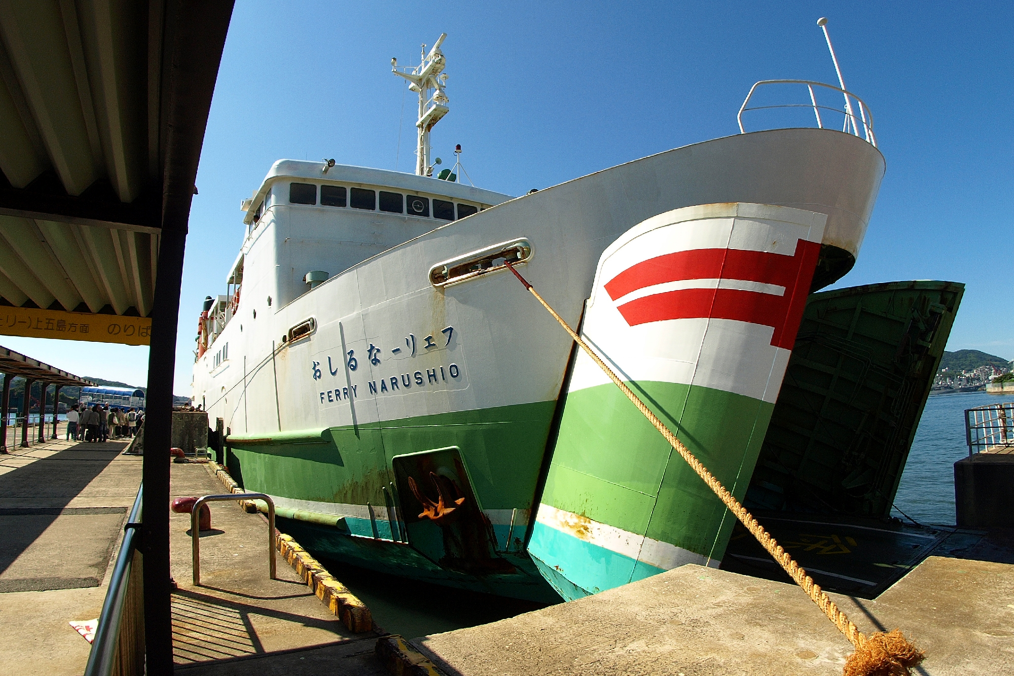 Ferry Narushio of Kyushu Shosen at the Port of Sasebo